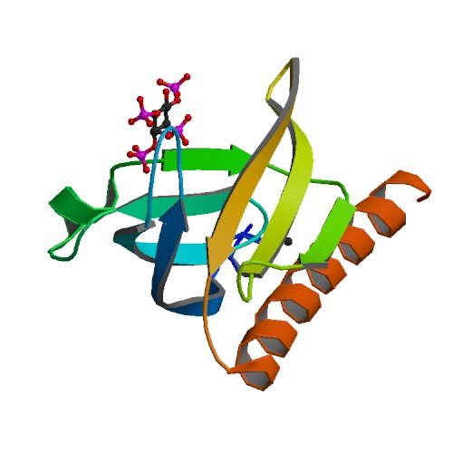 protein structure image